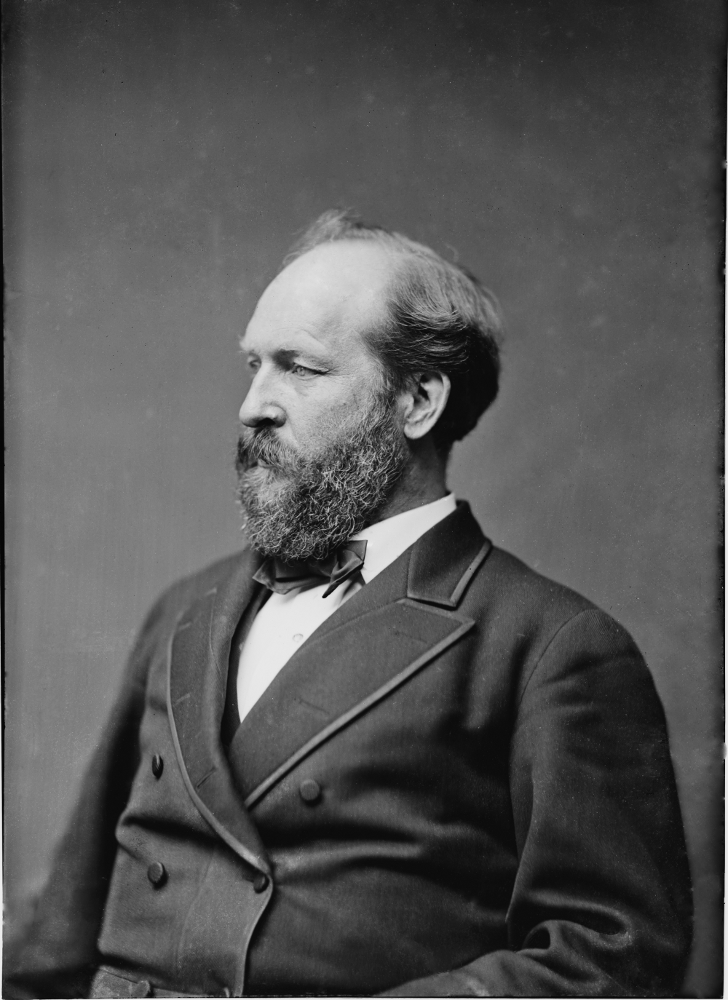 James Garfield restored